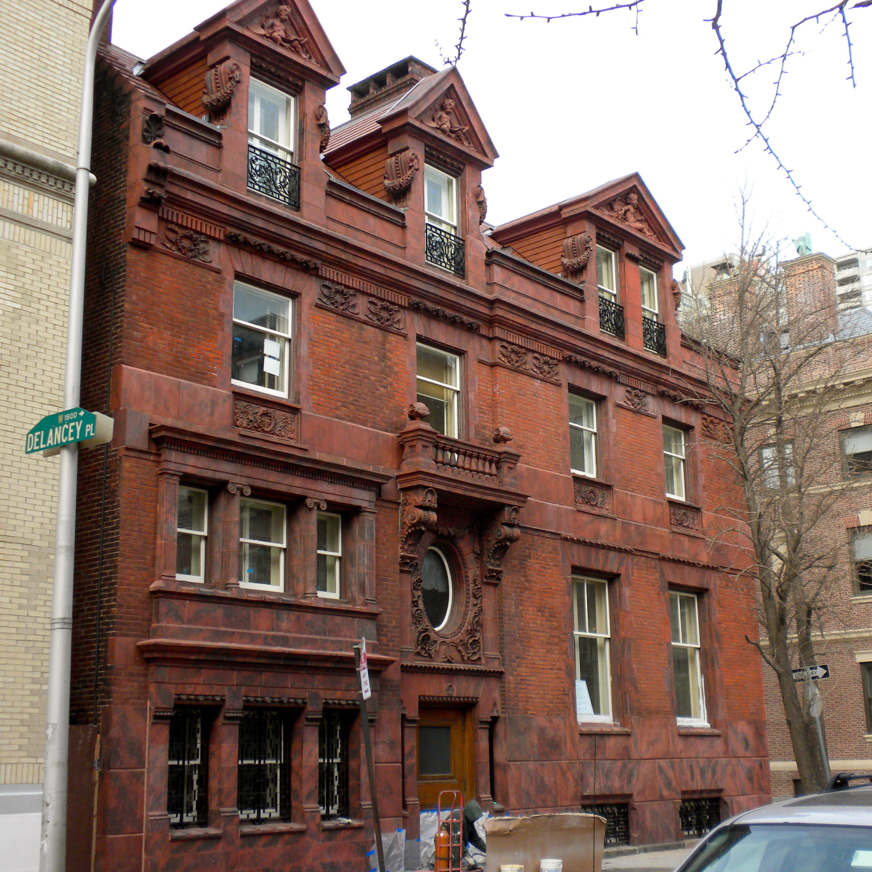 Horace Jayne House in Philadelphia. On the NRHP since July 22, 1982. At 320 South 19th Street in the Rittenhouse Square West neighborhood of Center City. Frank Furness, architect (1895). Currently being restored. Across the street from the Gen. George Meade house (1836 Delancy)